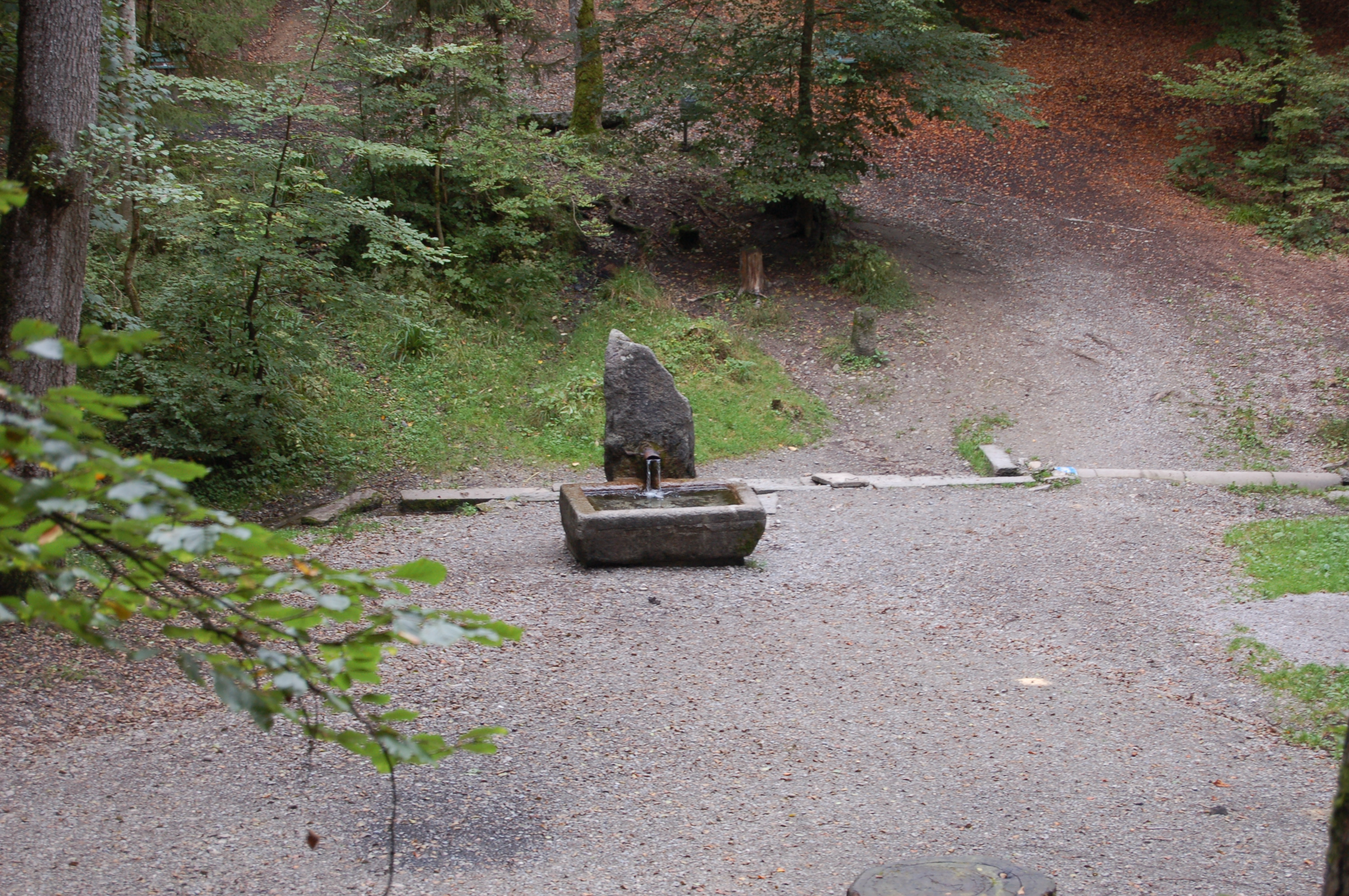 Glasbrunnen (glass-fountain) in Berne, Switzerland